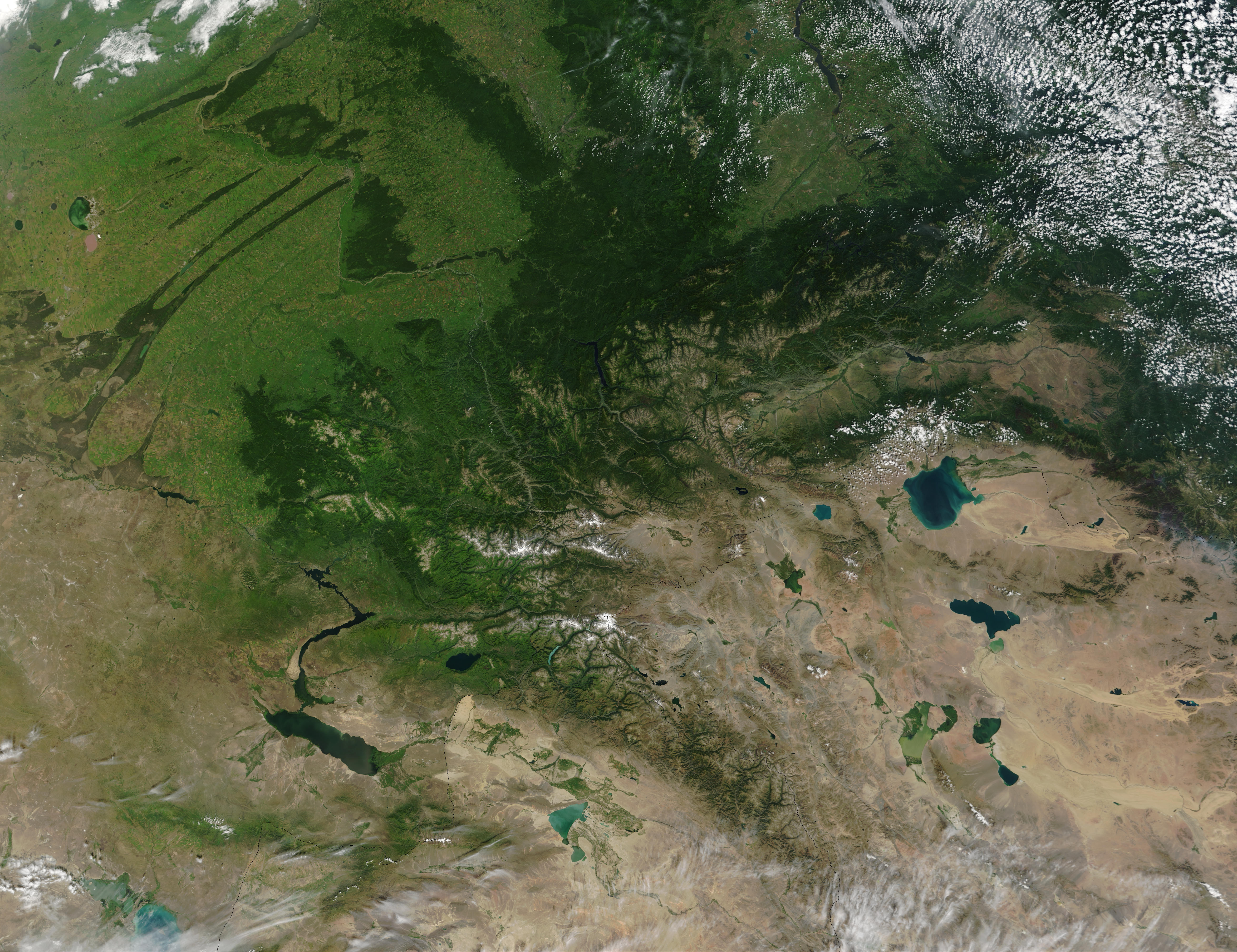 In a picture from space territories of Russia, Kazakhstan, China and Mongolia. This true-color image from the Moderate Resolution Imaging Spectroradiometer (MODIS) on the Terra satellite of south-central Russia (top and left) shows the marked change in vegetation between Russia and northern Mongolia (bottom right) and northern China (bottom center). Southern Russia appears lush with forested mountain slopes and wetlands (dark green bands running southwest to northeast in the upper left corner of the image), especially compared to the more arid terrain of the countries to the south.